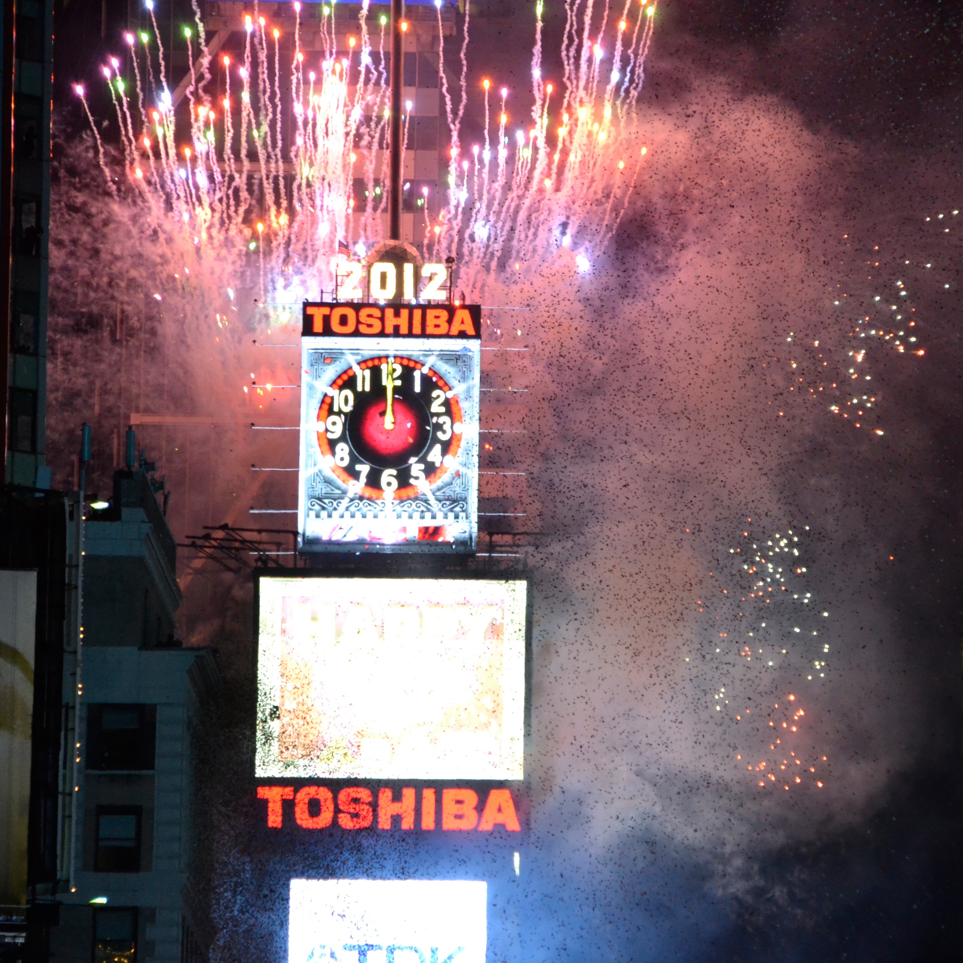 New Year Ball Drop Event for 2012 at Times Square